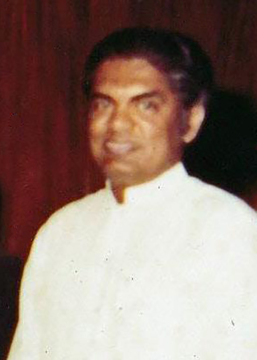 Photograph of late Sri Lankan Politician Lalith William Samarasekera Athulathmudali (1936-1993)